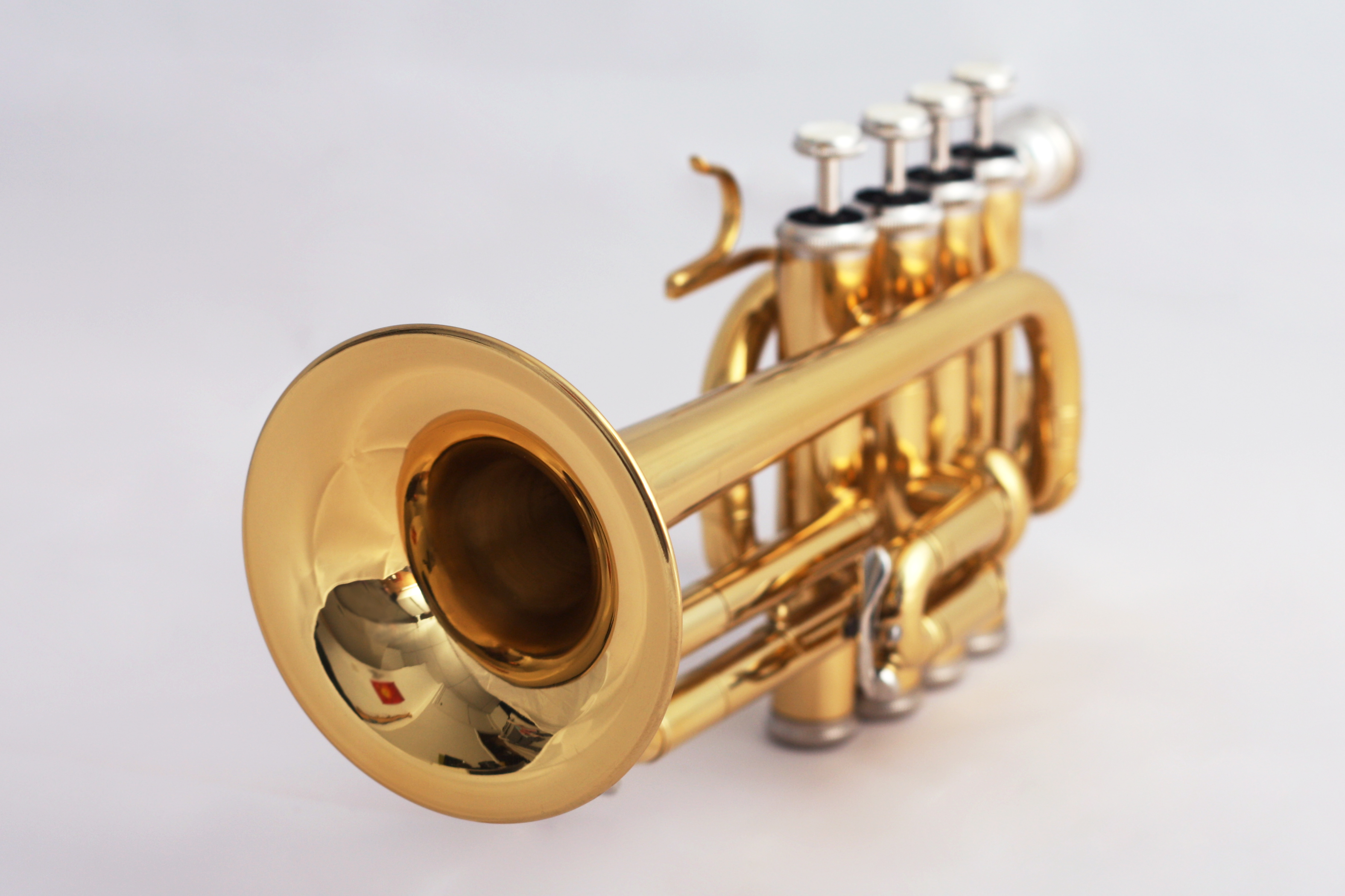 The bell of a piccolo trumpet.